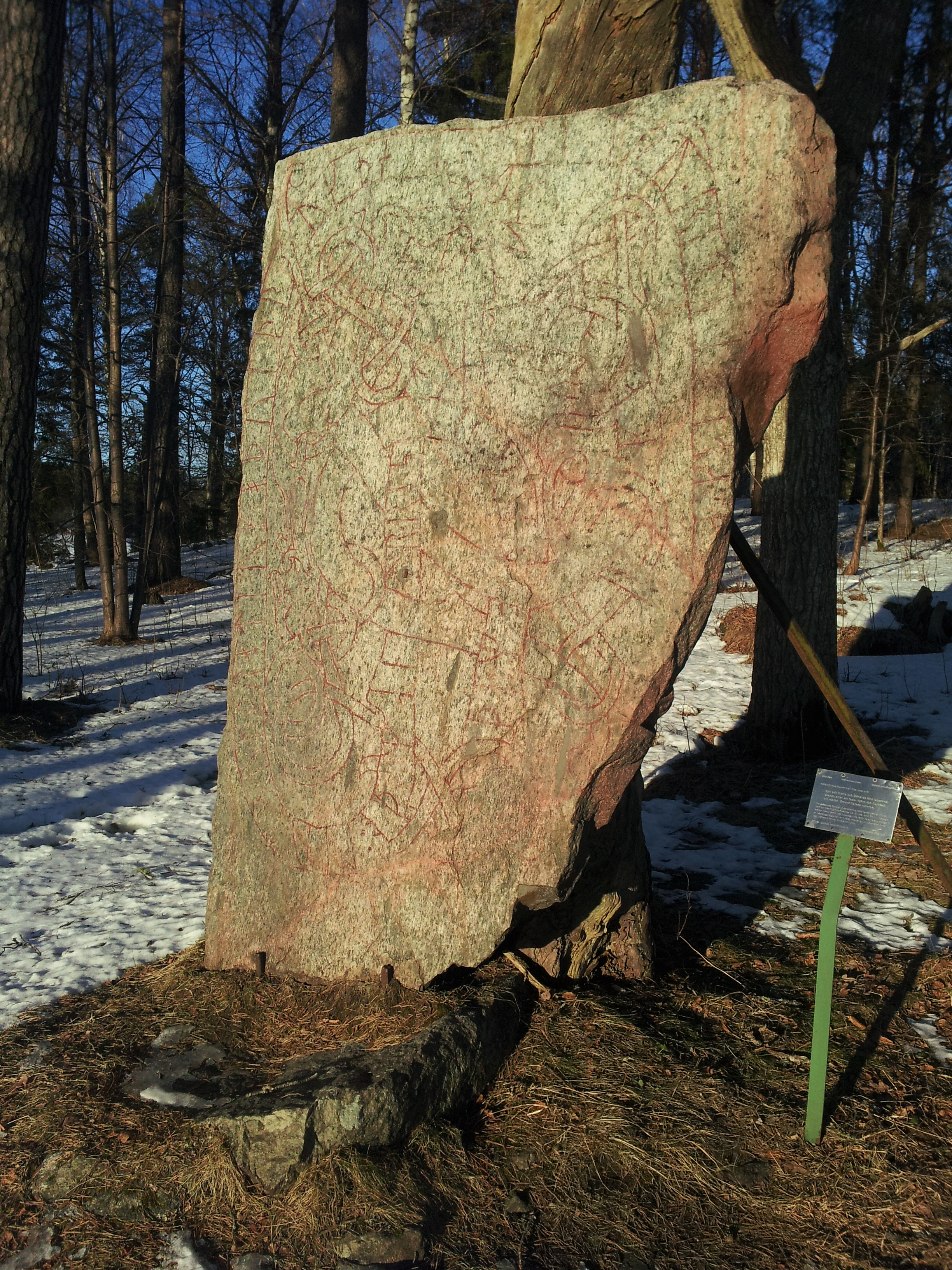 A runestone (U 1132) with carving on it. The runestone is located in in Gimo, Sweden. It was made during the 11th century.